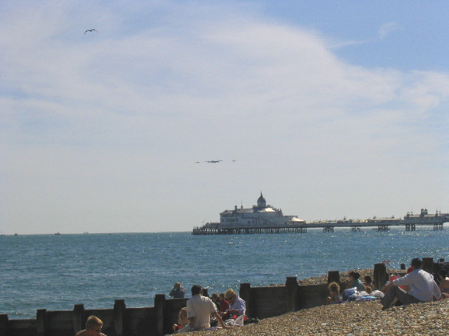 Fly-pass over Eastbourne Pier, Sussex. The 'Battle of Britain' flight, flying over Eastbourne Pier during the 2005 'Airbourne' air show.